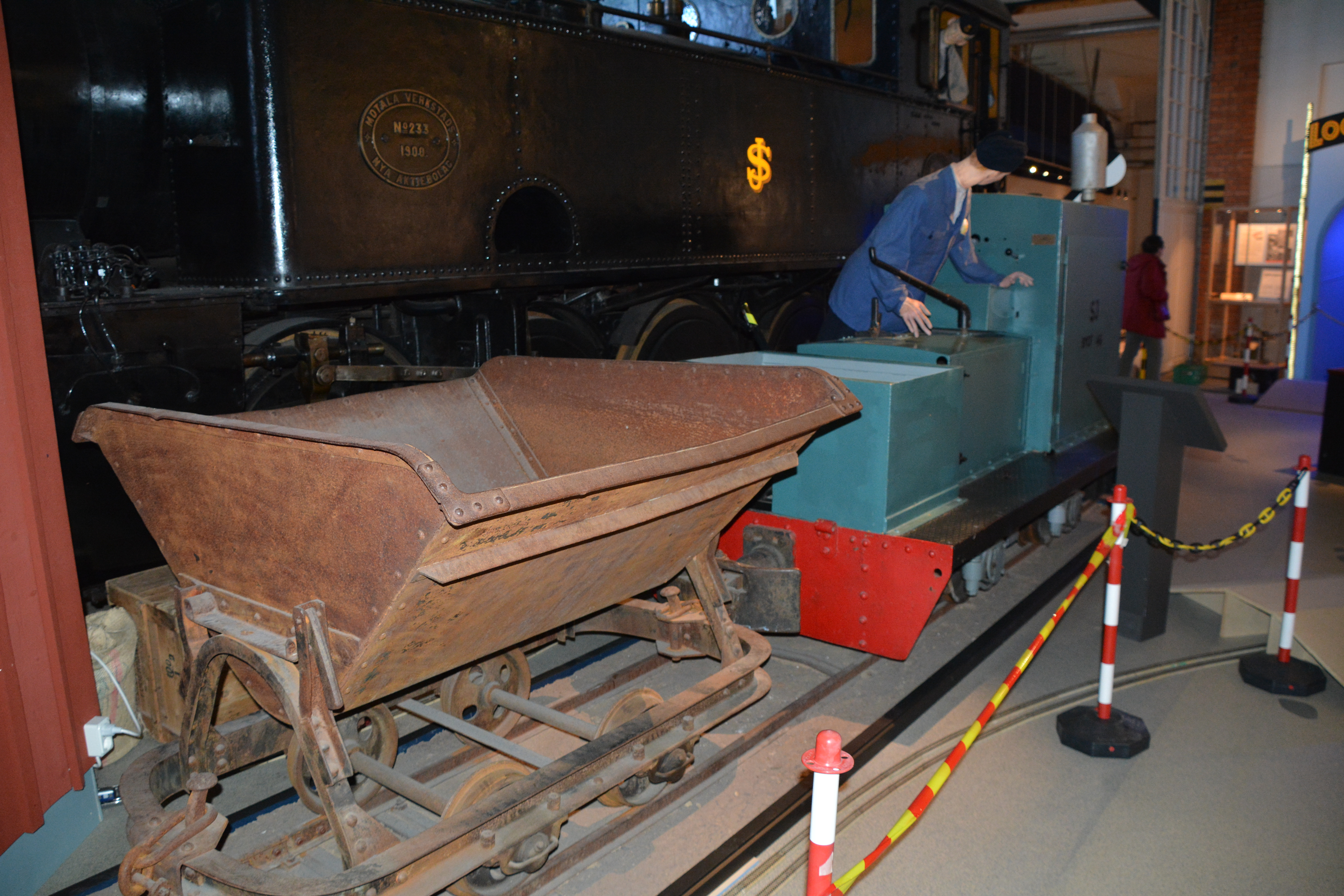 Decauvillejärnväg, Järnvägens Museum Ängelholm